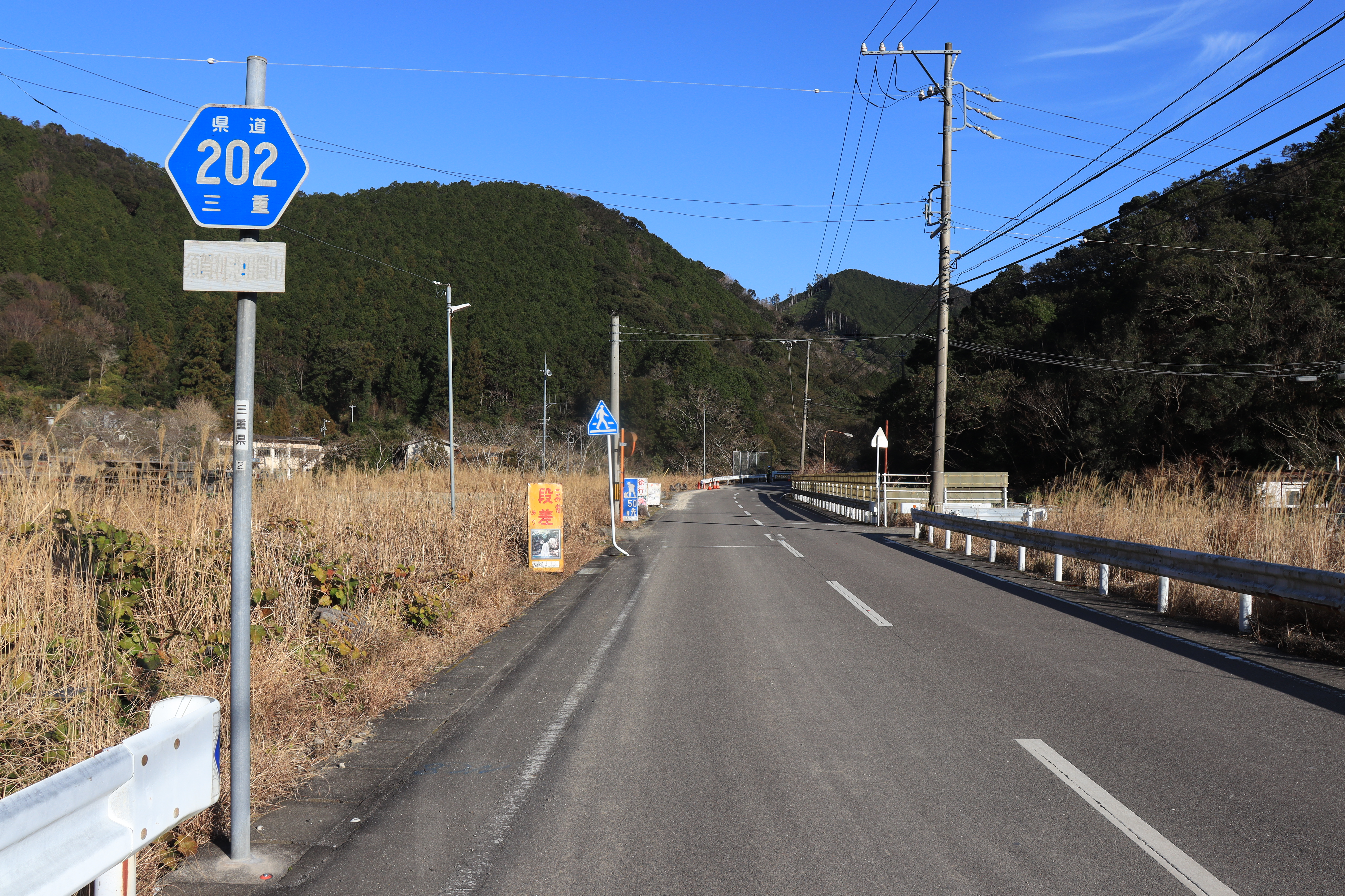 Mie Prefectural Road Route 202 in Sugaricho, Owase, Mie Prefecture, Japan.